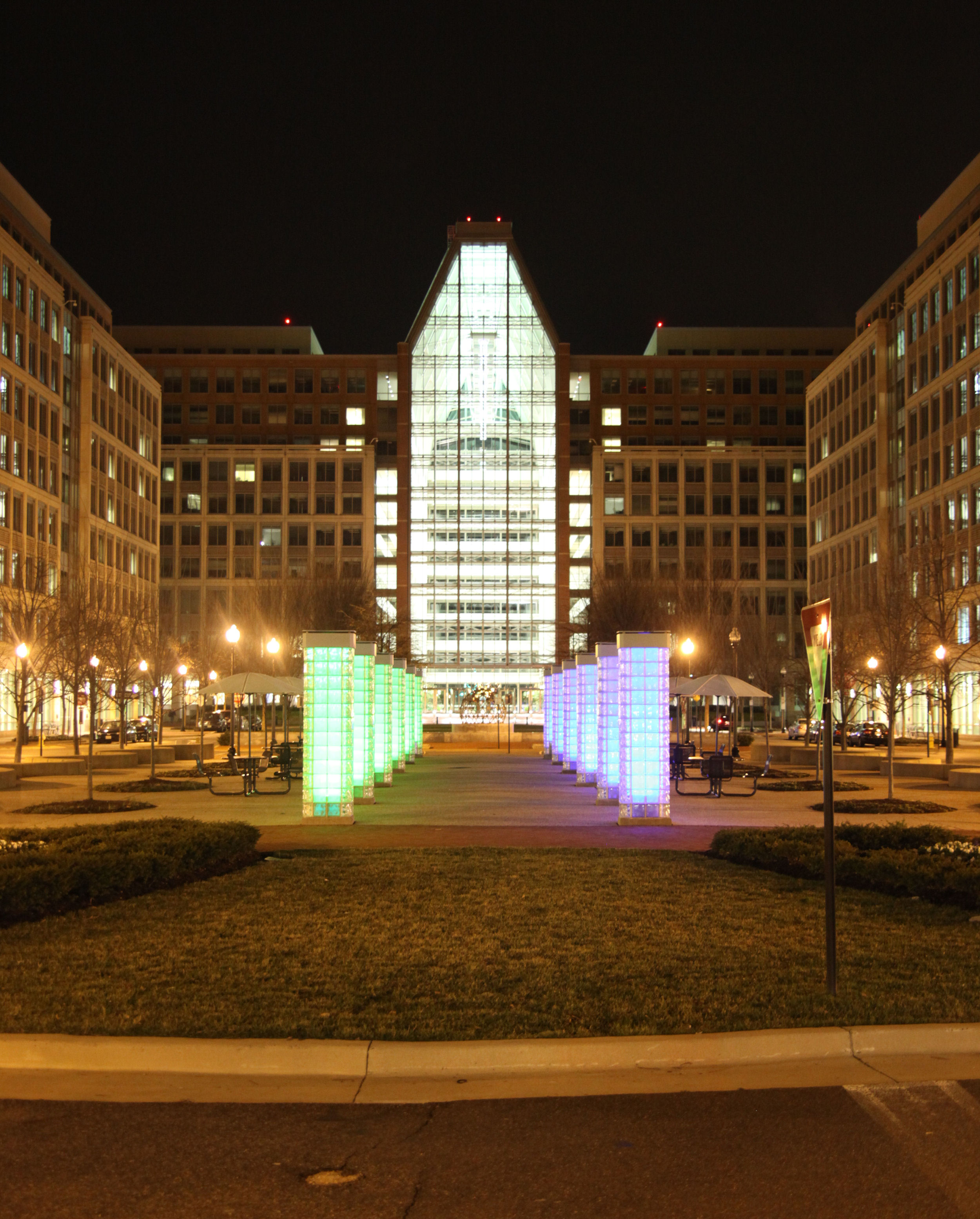 The United States Patent and Trademark Office at Carlyle Place in Alexandria, Virginia.